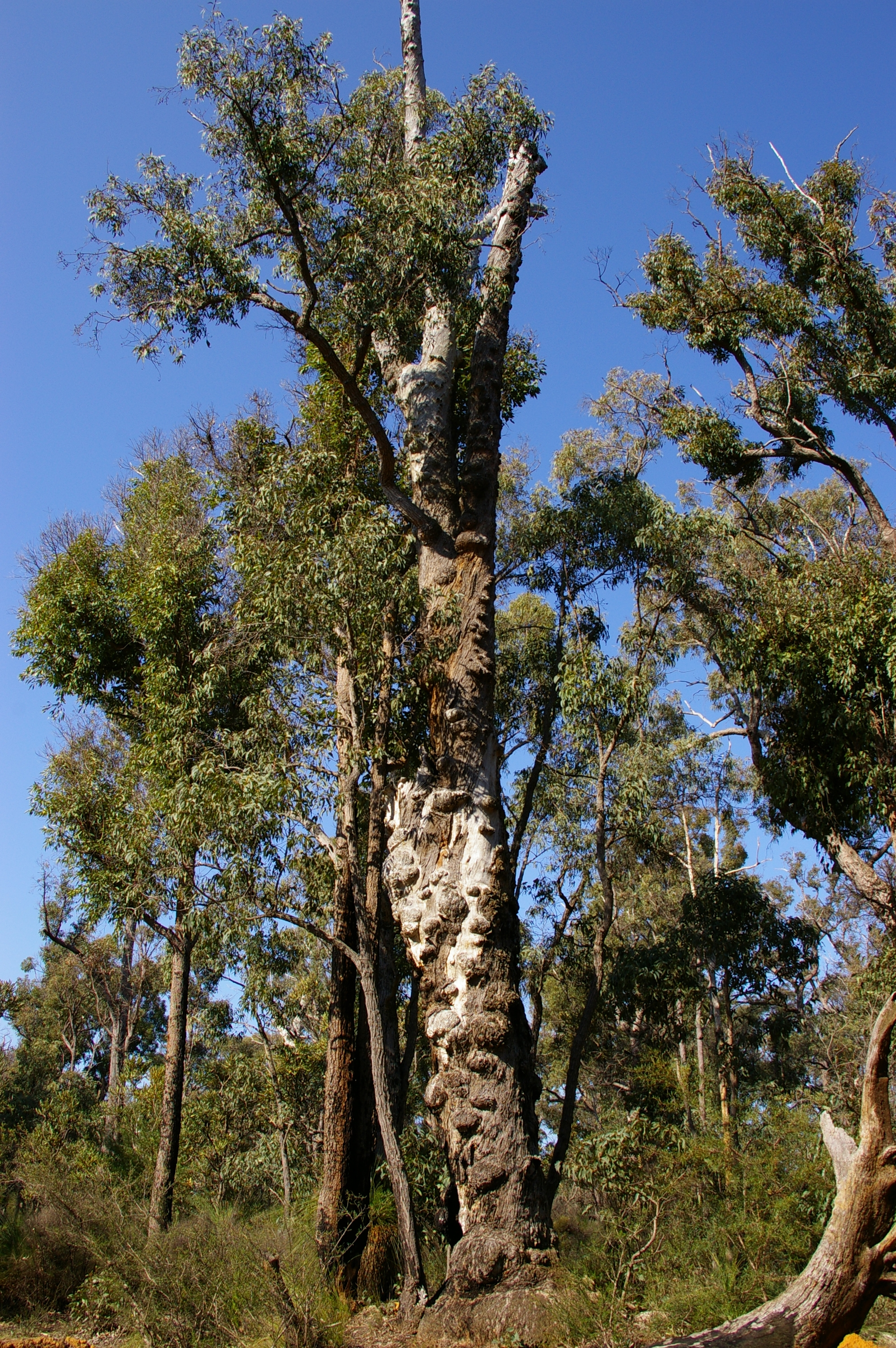 Taken in the Monadnocks Conservation reserve near the bibbulmun track where it crosses the upper reaches of the Canning river Old Eucalyptus marginata or Jarrah tree note the burls, early logging avoided trees like this as they were difficult to cut and were thought to have poor structural integrity, the burls are now highly sought after for furniture making because of the grain texture on the polished timber.